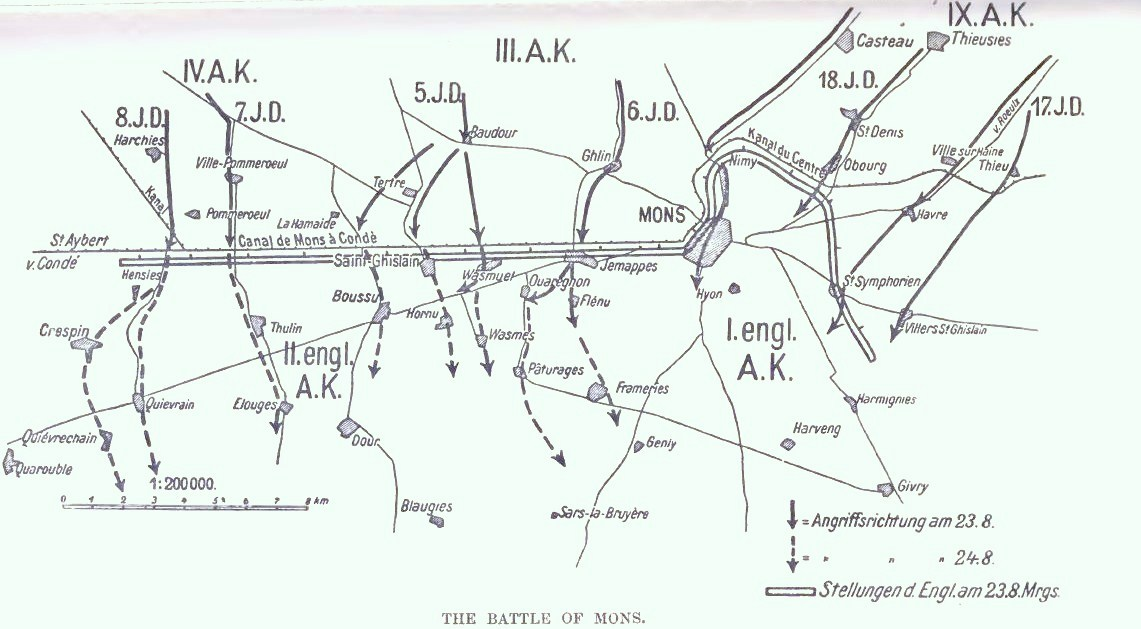 Diagram, Battle of Mons 23 August 1914